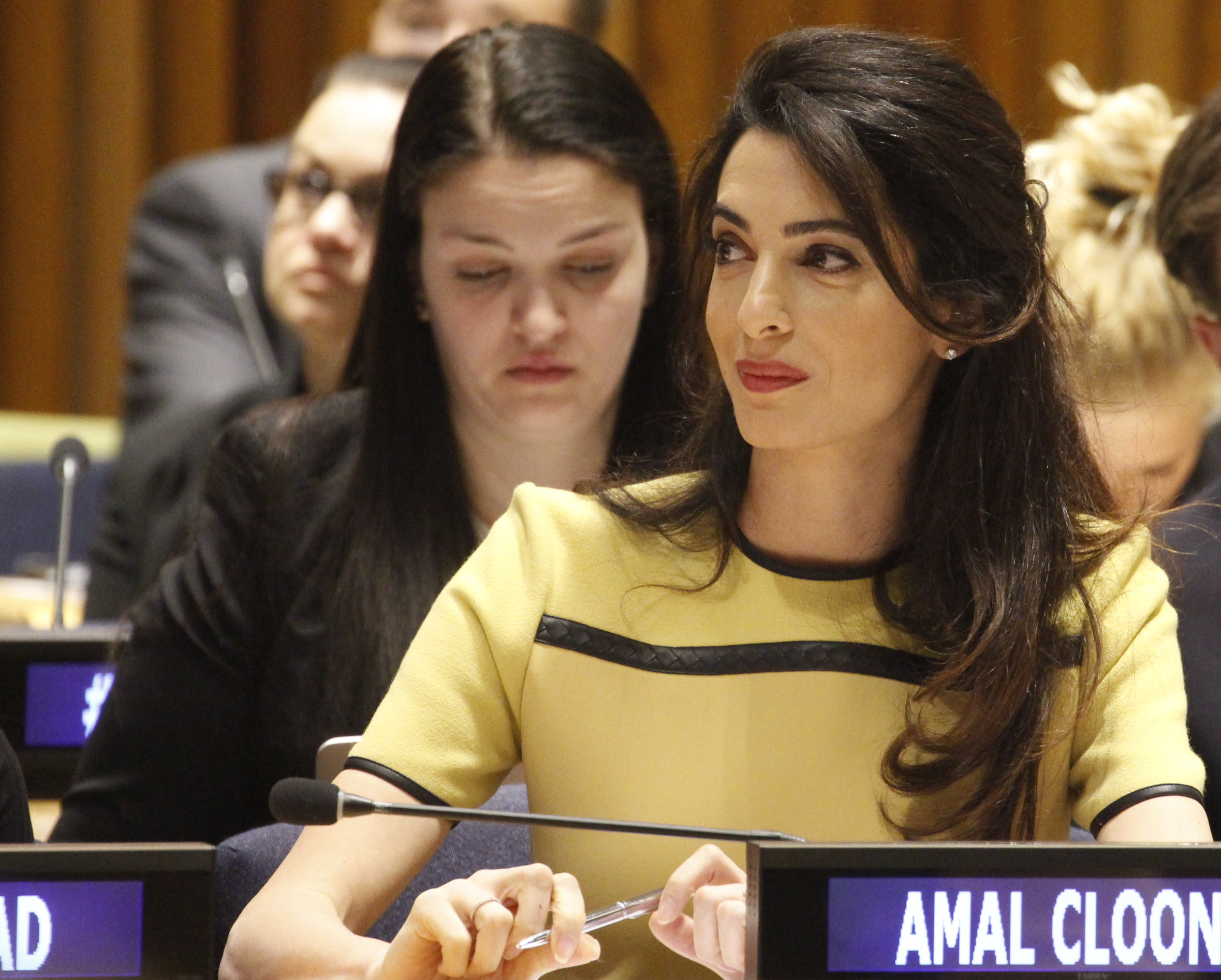 Amal Clooney